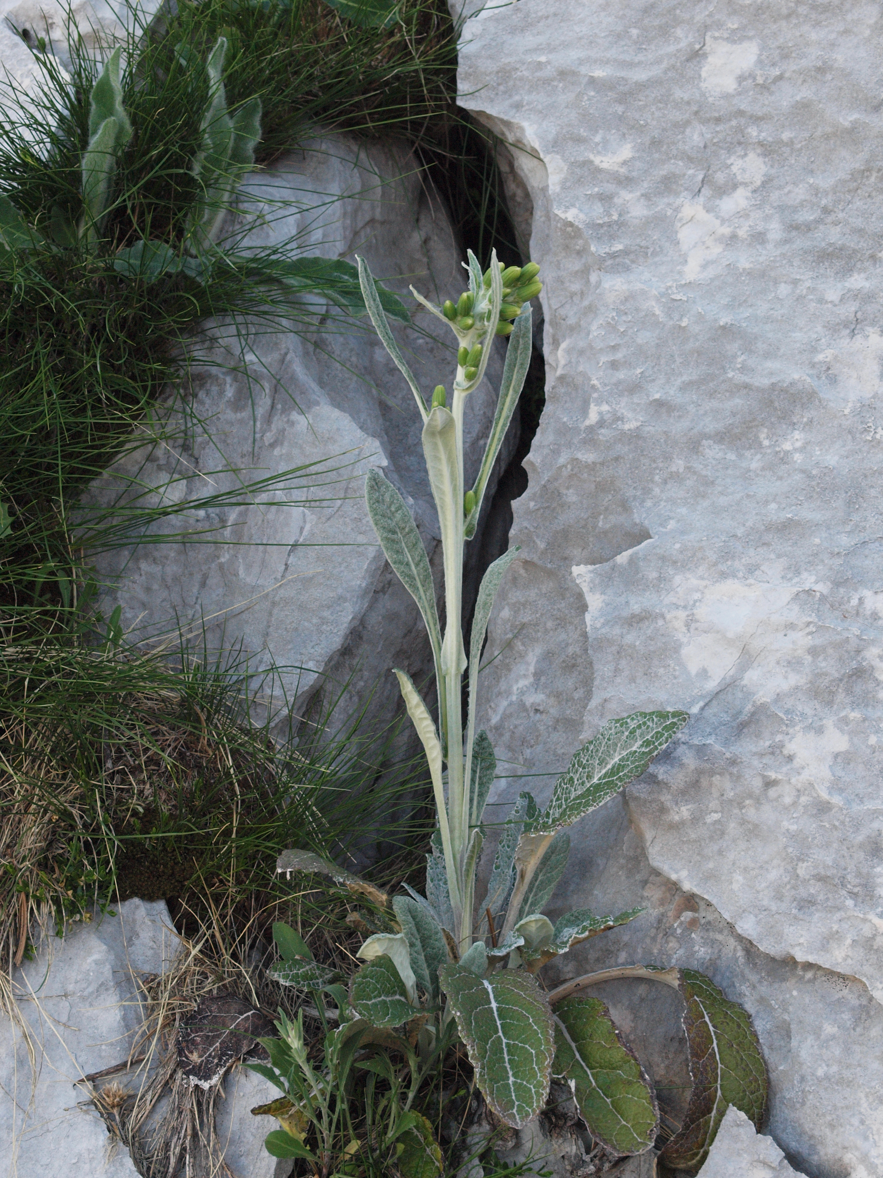 Senecio thapsoides ssp. visianianus, Orjen Montenegro